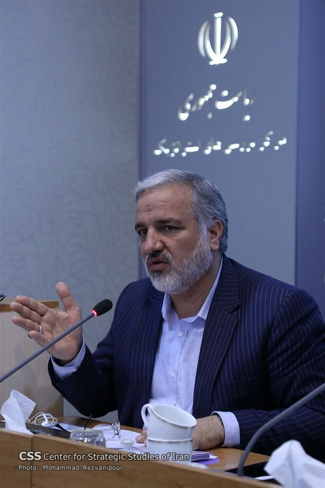 Ahmad Ali Mohebati, governor of Sistan and Balouchistan Province of Iran